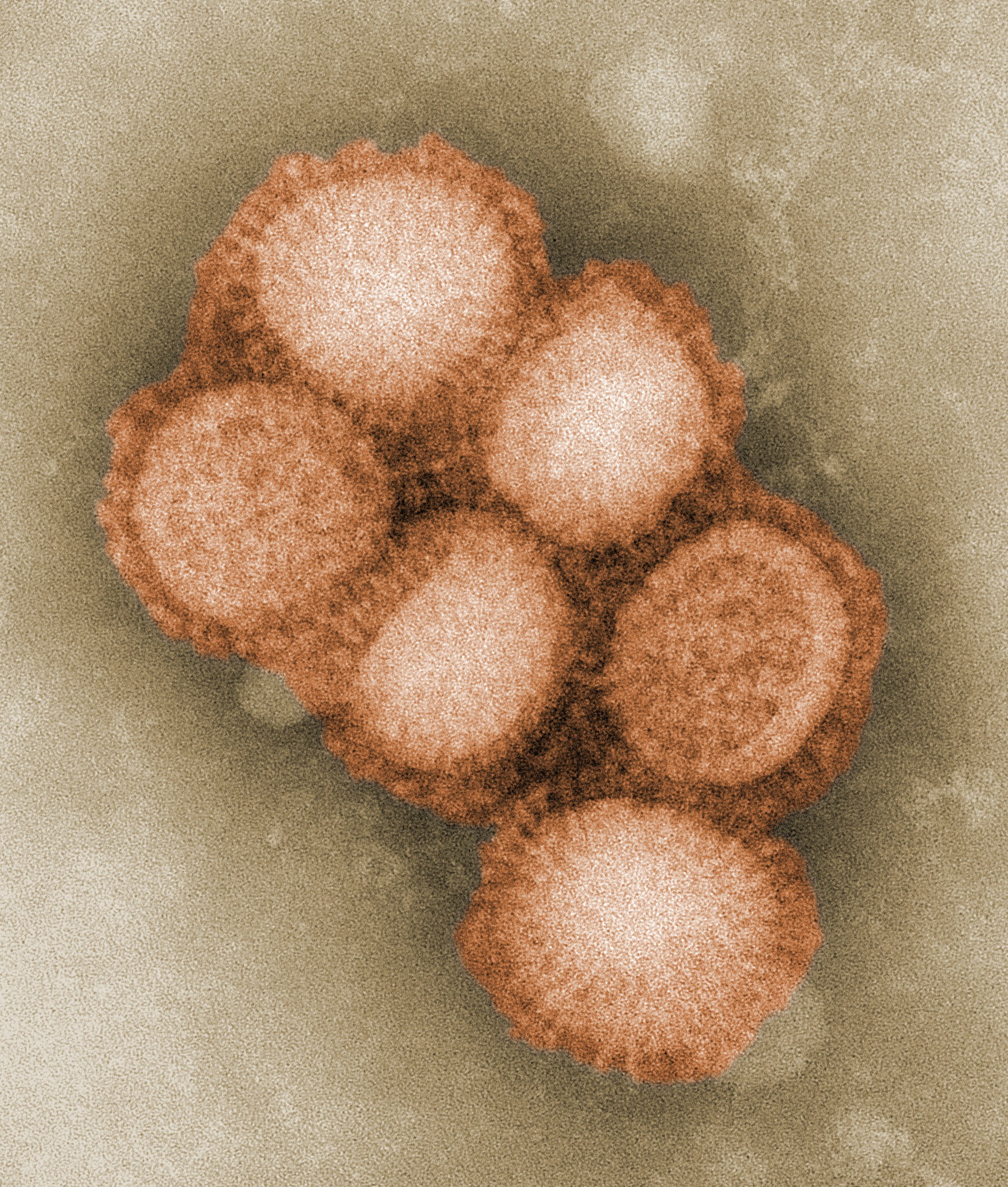 This colorized negative stained transmission electron micrograph (TEM) depicted some of the ultrastructural morphology of the A/CA/4/09 swine flu virus. See PHIL 11212 for a black and white version of this image.